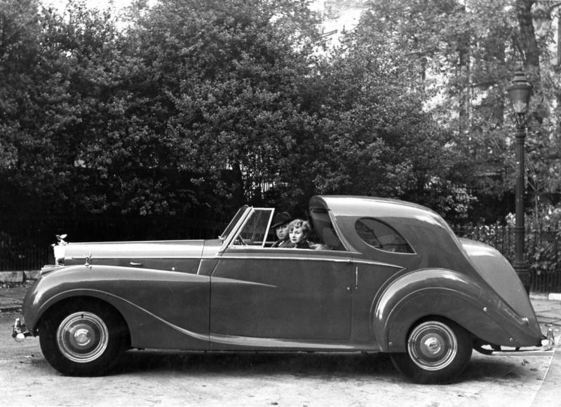 Bentley MK VI Teardrop Coupé Coachwork by Gurney Nutting.